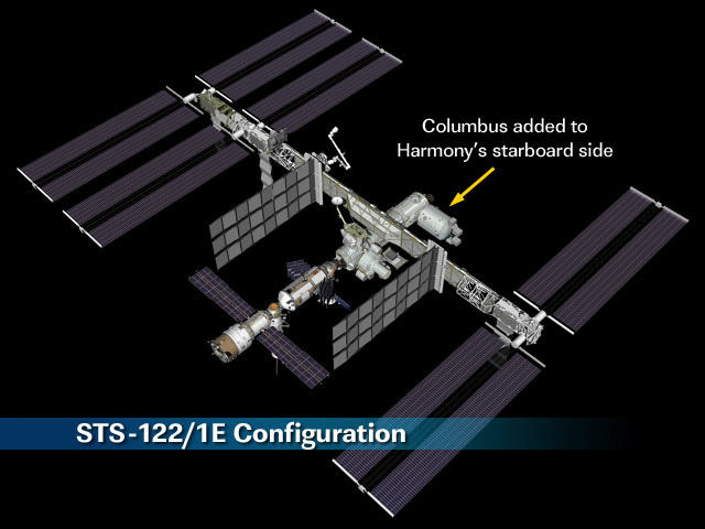 The configuration of the International Space Station following the STS-122/ISS-1E mission to the orbital complex, highlighting the addition of the Columbus module.